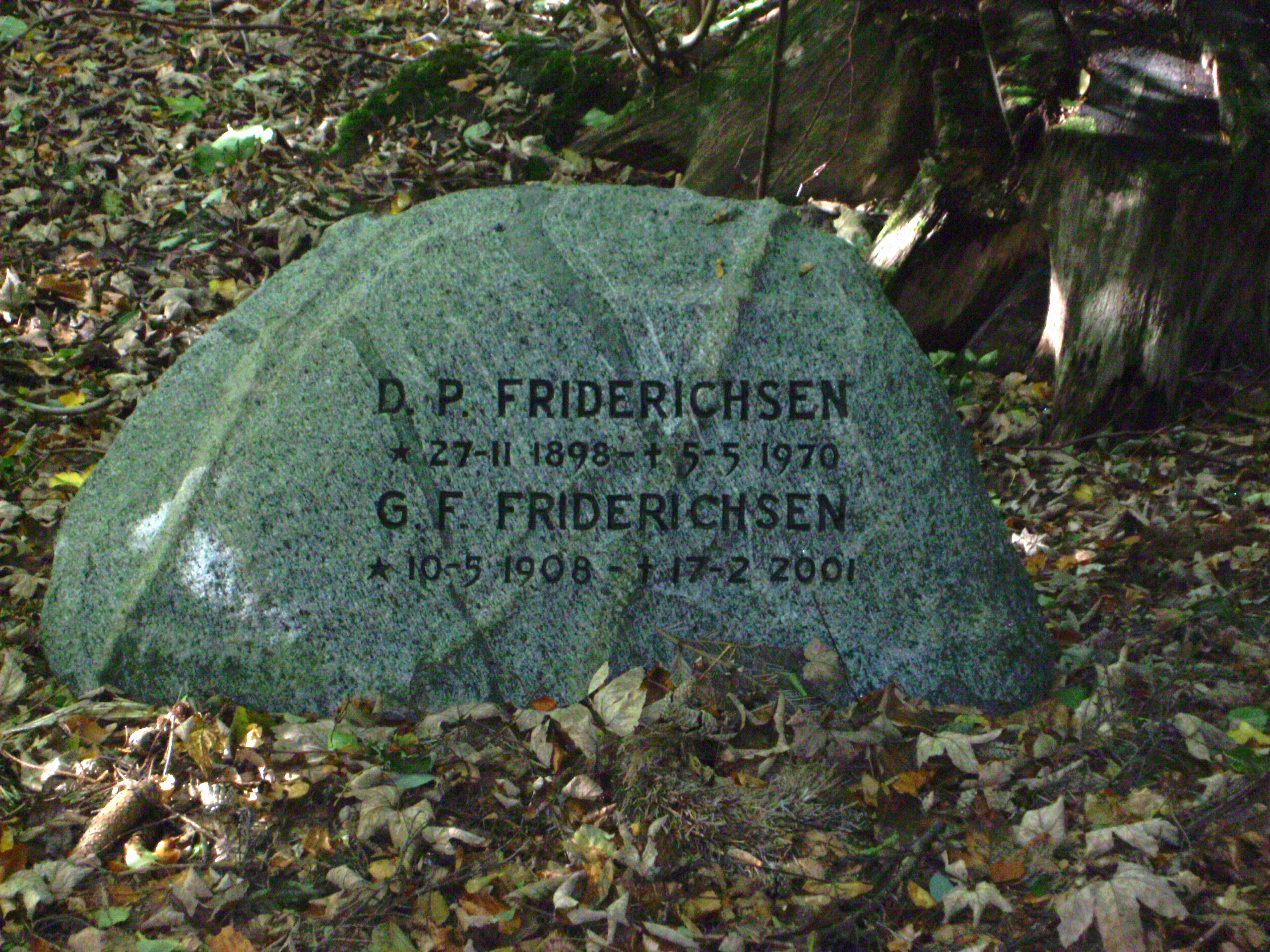 Tombston in a forest in Denmark